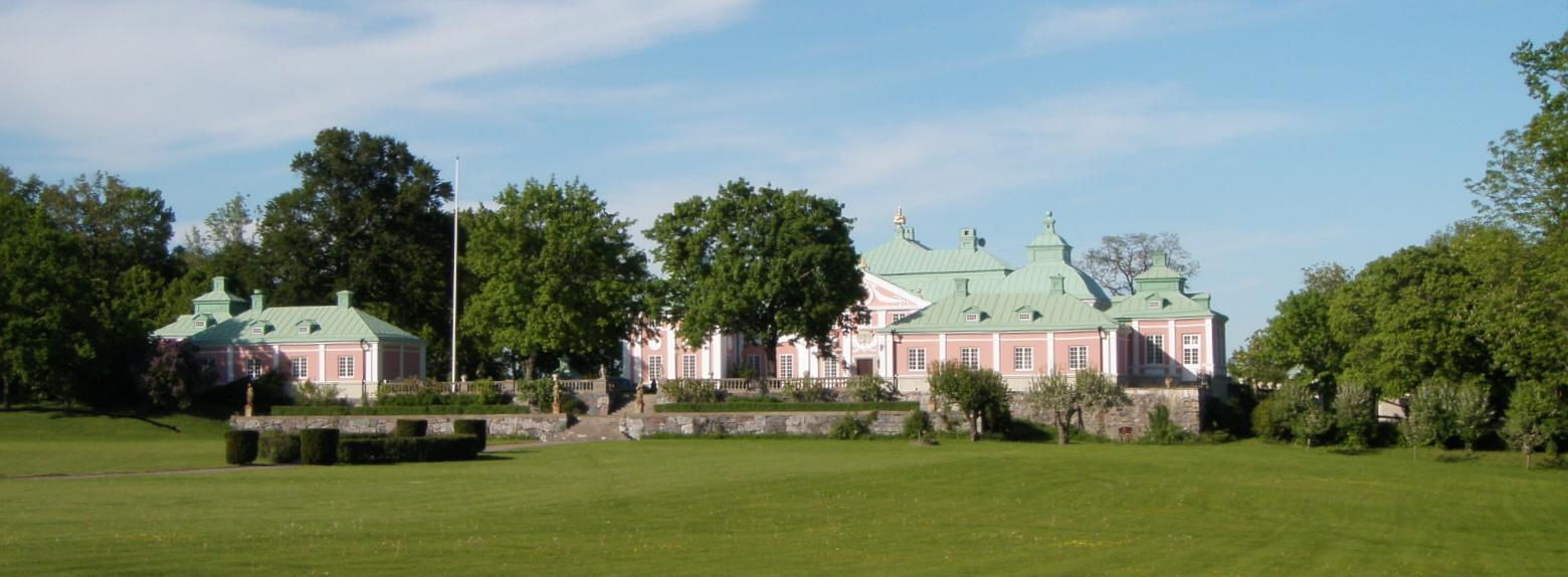 Ållonö, a castle in Norrköping, Sweden. The Baroque castle of stone on one floor, with basement, corner pavilions and manor roof, was built around 1670-1675, probably designed by Nicodemus Tessin the Elder. It was burned by the Russians in 1719 and rebuilt in 1740-1744 in the facilitation condition. At a restoration in the early 1900s restored baroque exterior.